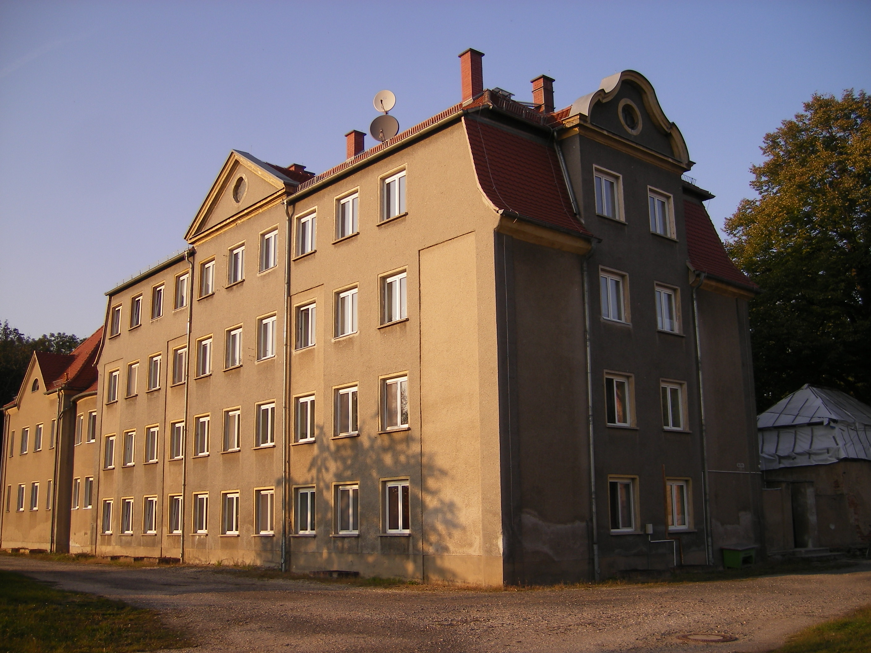 Castle in Lucka-Prößdorf near Altenburg/Thuringia